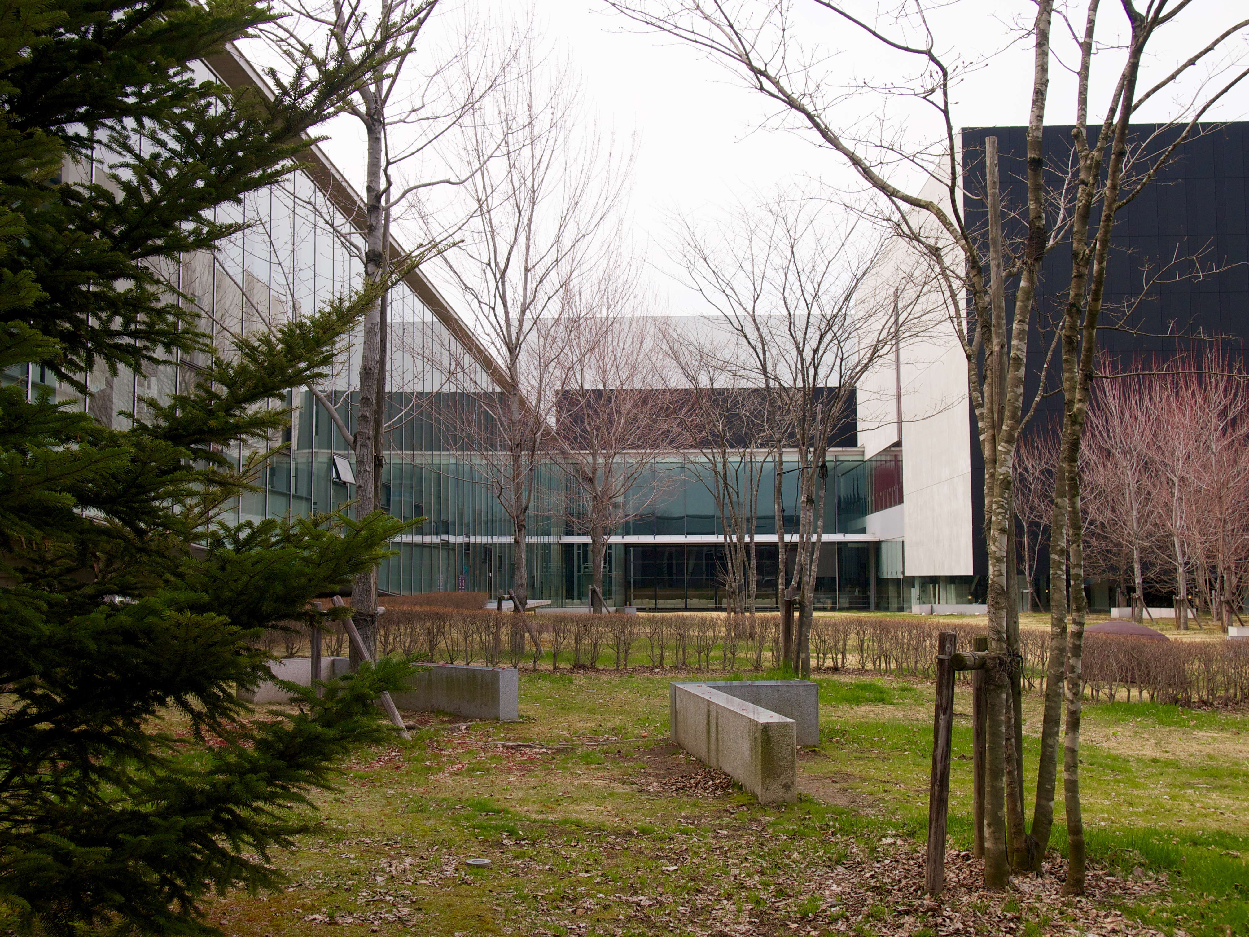 Chino civic center, Chino city, Nagano pref Japan